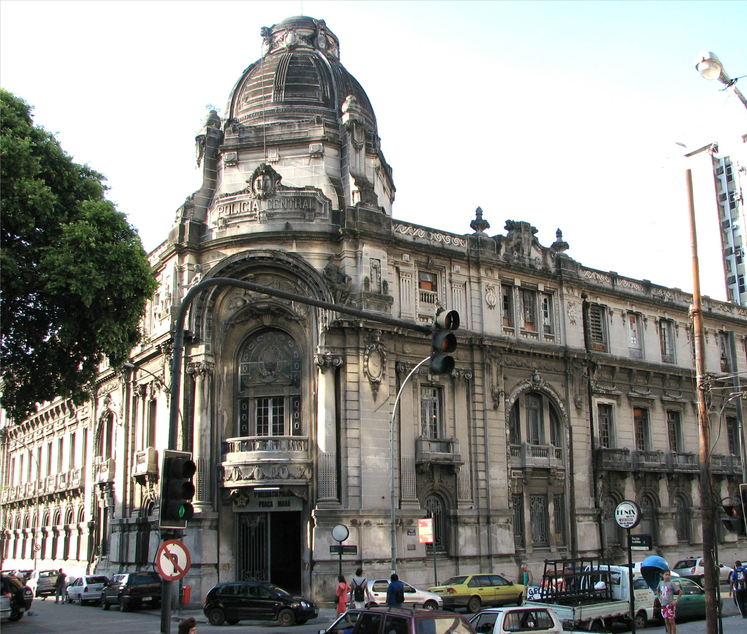 Rio de Janeiro Police Museum Building, Old Police Station